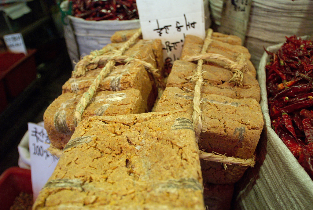 Meju (메주) sold at Gyeongdong Market in Seoul, South Korea. It is a kind of soybean malt used to make jang, Korean condiments based on soybeans such as doenjang (soybean paste), gochujang (chilly pepper paste), soy sauce, and others.